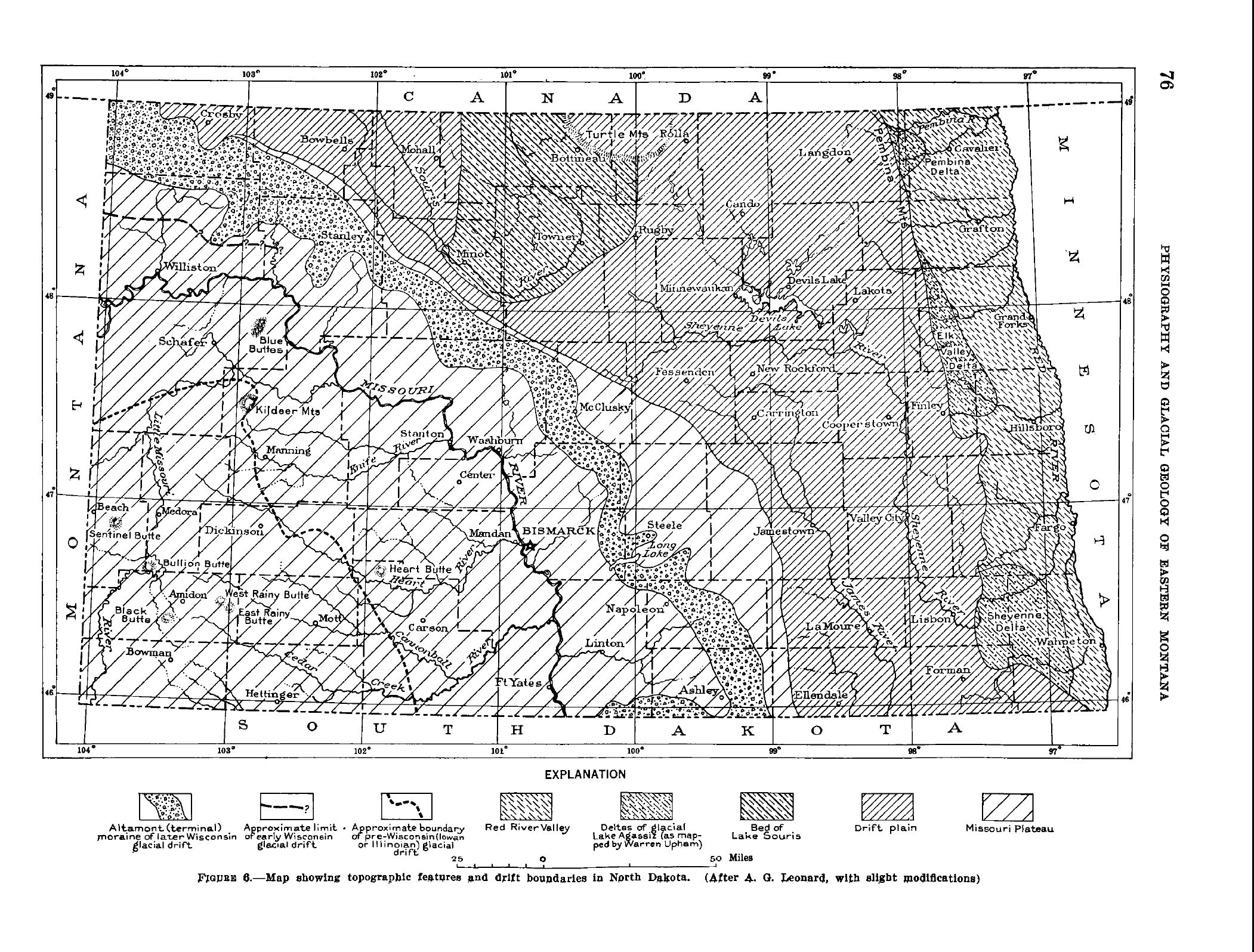 Fig 6 Map showing topographic features and drift boundaries in North Dakota